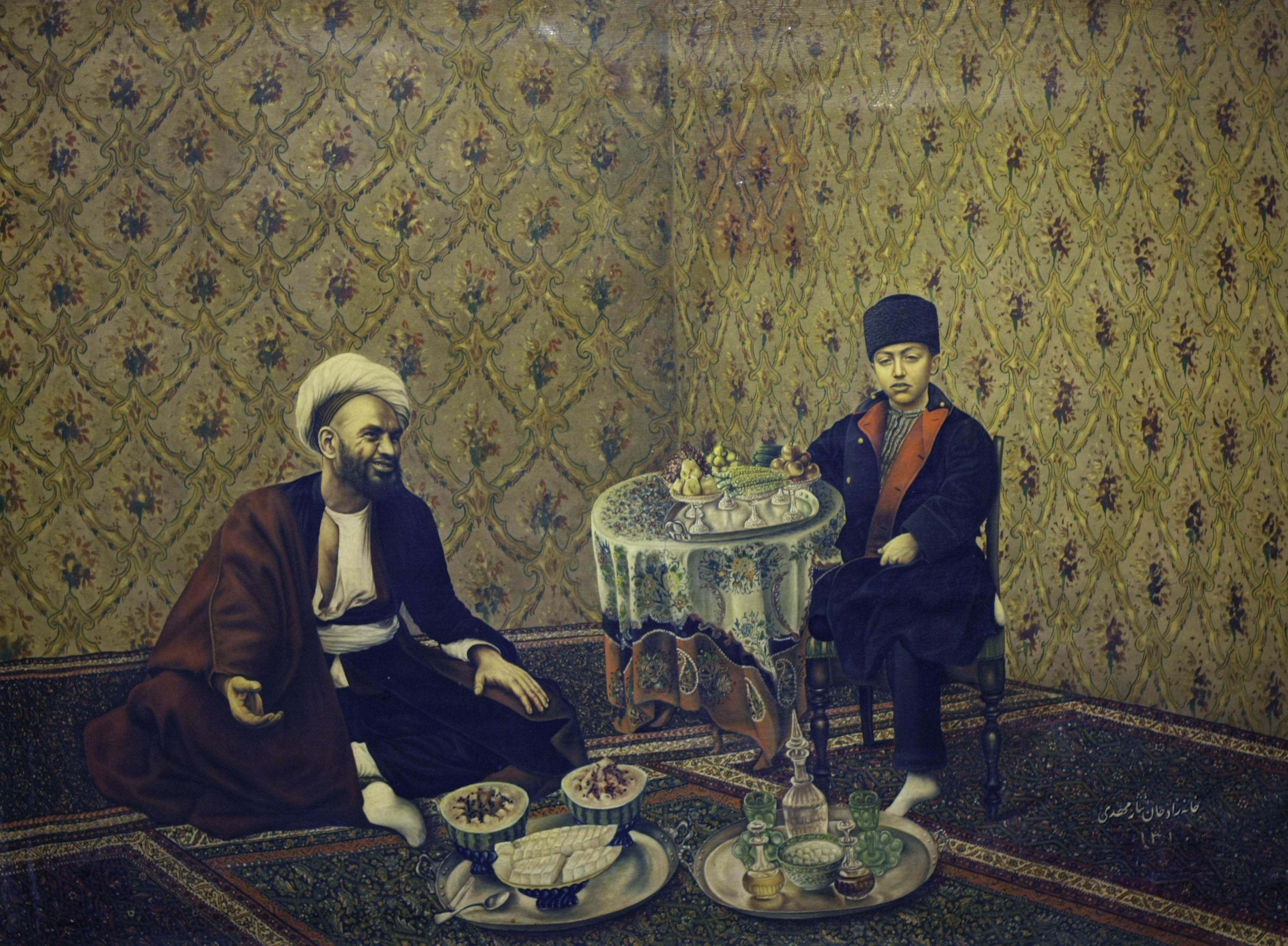 Mlijak.